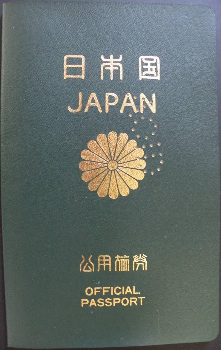 Japanese official passport